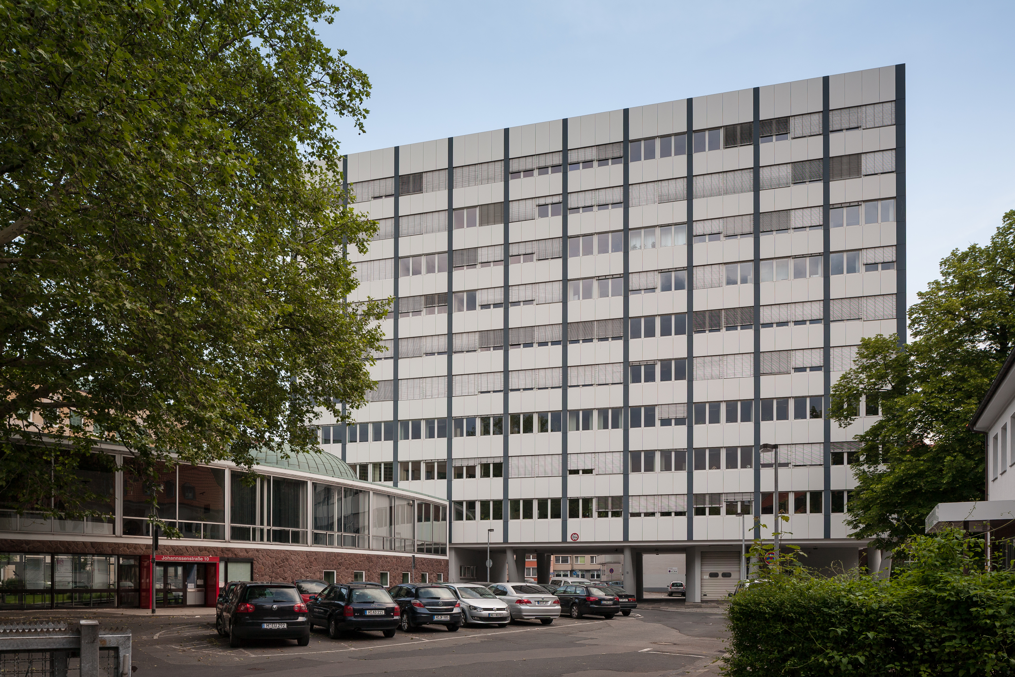 Office building of the finance department located at Johannssenstrasse in Hanover, Germany.